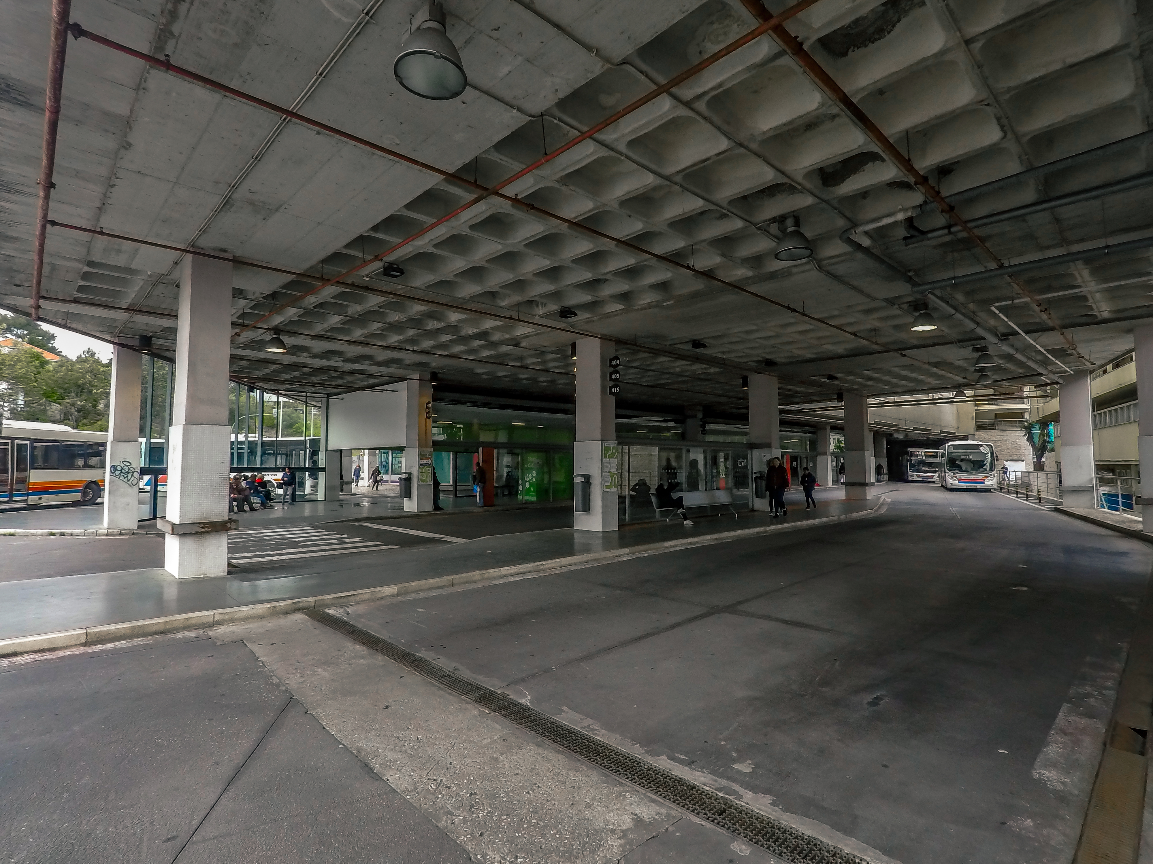 Terminal Rodoviário de Cascais